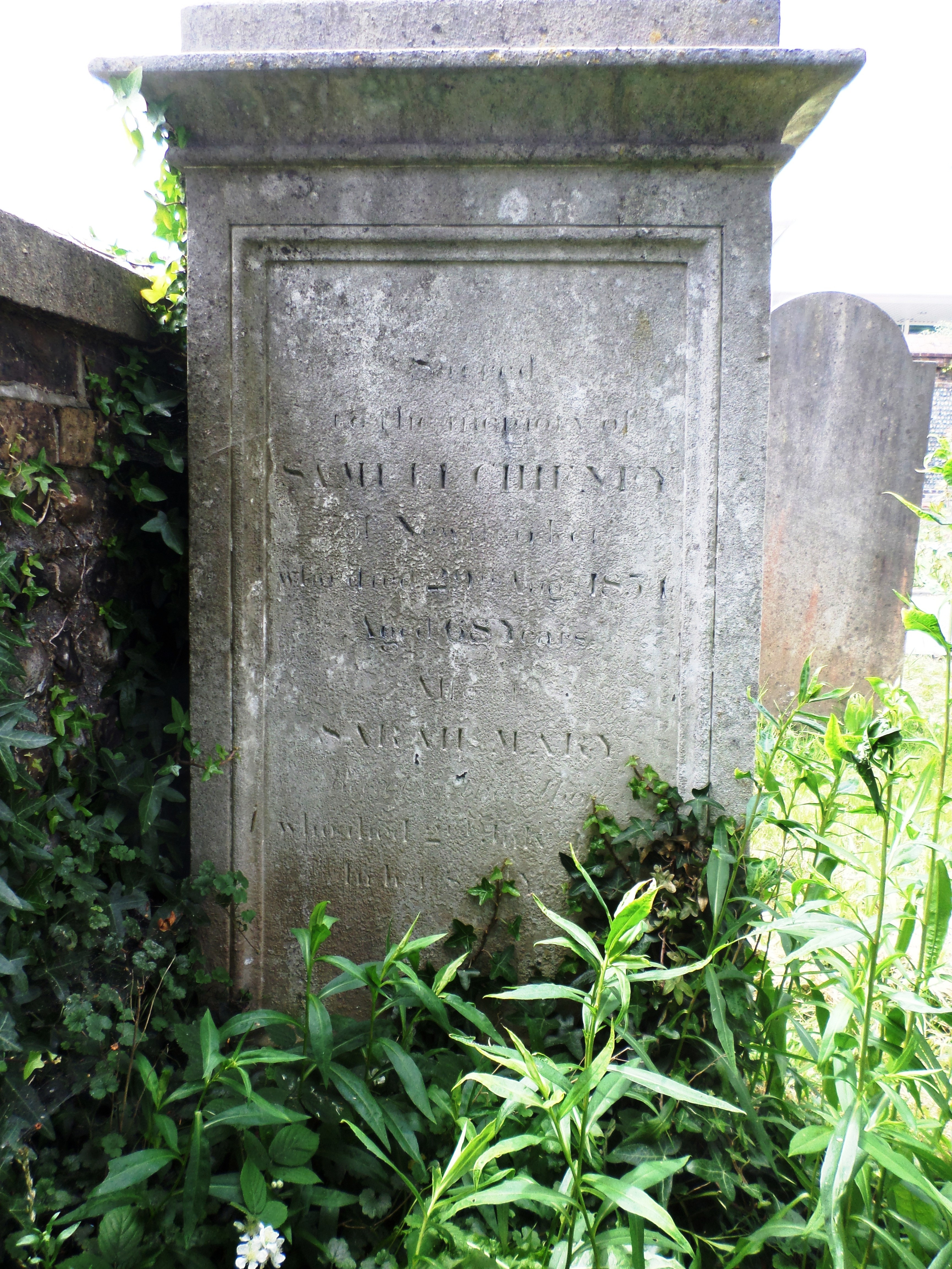 SAMSUNG CAMERA PICTURES